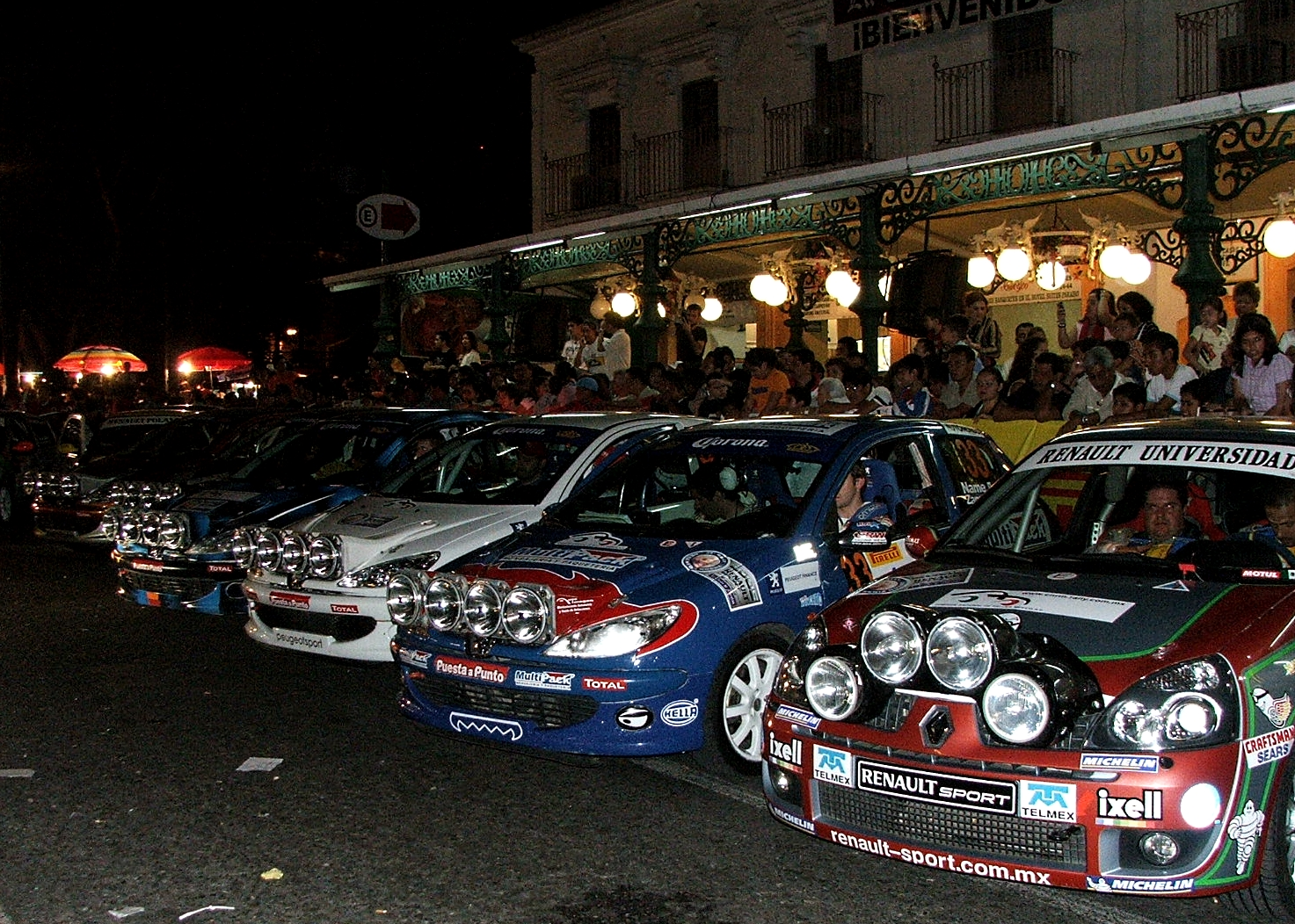 Inaugural start of the Rally de la Media Noche 2005 - Mexico